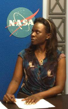 2013 "Converses with Students" Agencies presenter EPA Scientist Dr. Sala Senkayi at the Johnson Space Center’s (JSC) Digital Learning Network (DLN) studio located in Houston, Texas. On April 3rd and 17th 2013, NASA's Digital Learning Network (DLN) joined volunteers from EPA's R6 RSC for two (one hour long) Earth Day events. Students nationwide were able to converse with astronaut Mario Runco at the Johnson Space Center (JSC), Goddard Space Flight Center (GSFC) scientist Lori Perkins, EPA's R6 RSC Chair Dr. Sala Senkayi (at JSC) and EPA national climate change expert Dr. Marcus Sarofim (at GSFC).